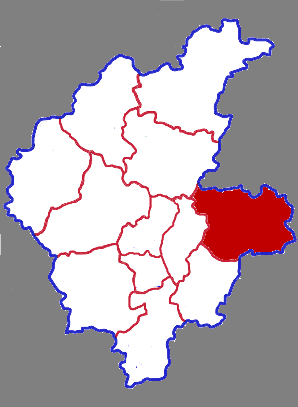 Location of Junan county in Linyi City, China